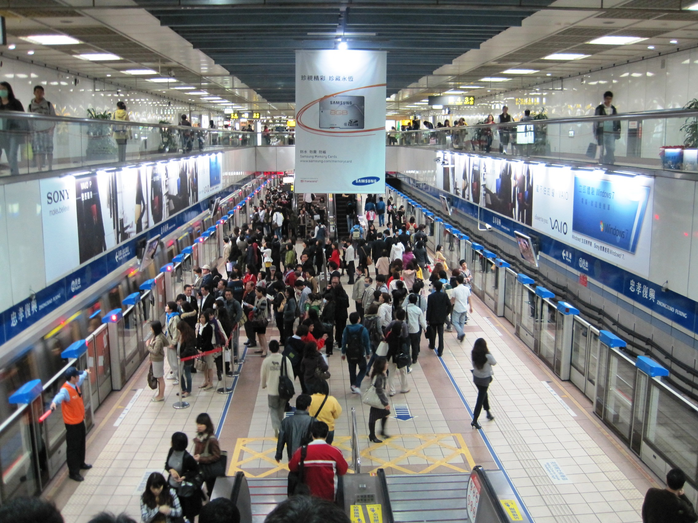 Platform 1 & 2, Zhongxiao Fuxing Station, Taipei Metro. 中文（台灣）: 台北捷運忠孝復興站1月台與2月台。